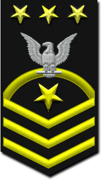 US Navy Master Chief Petty Officer of the Navy shoulder patch rate insignia